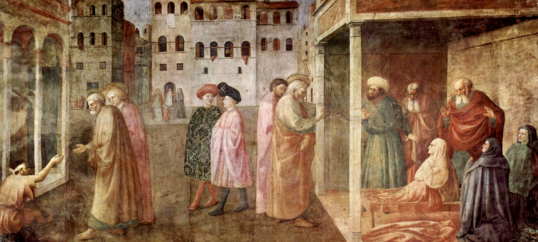 Masolino at the Brancacci Chapel, The Healing of Tabitha